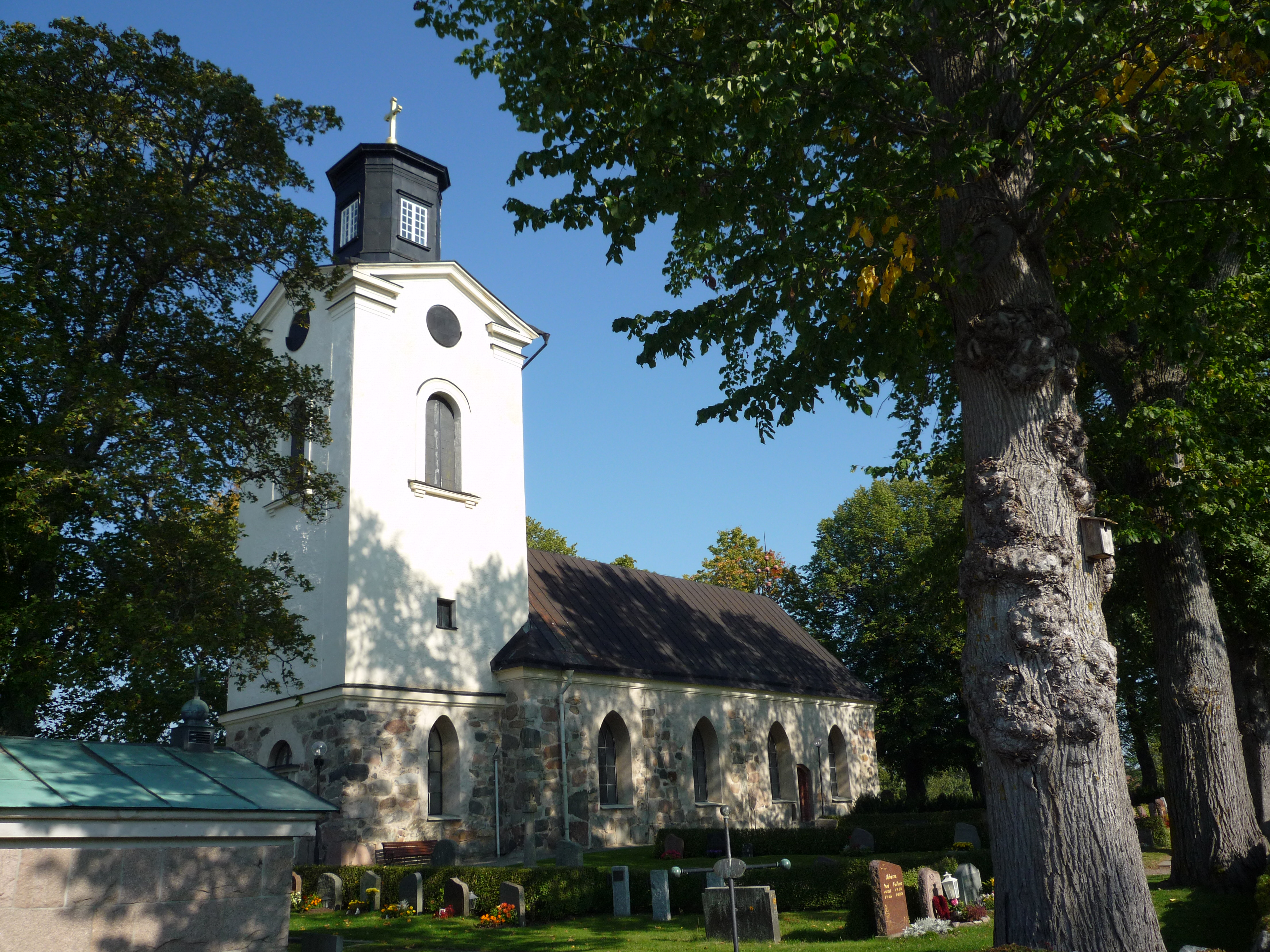 Lundby church, Västerås Municipality